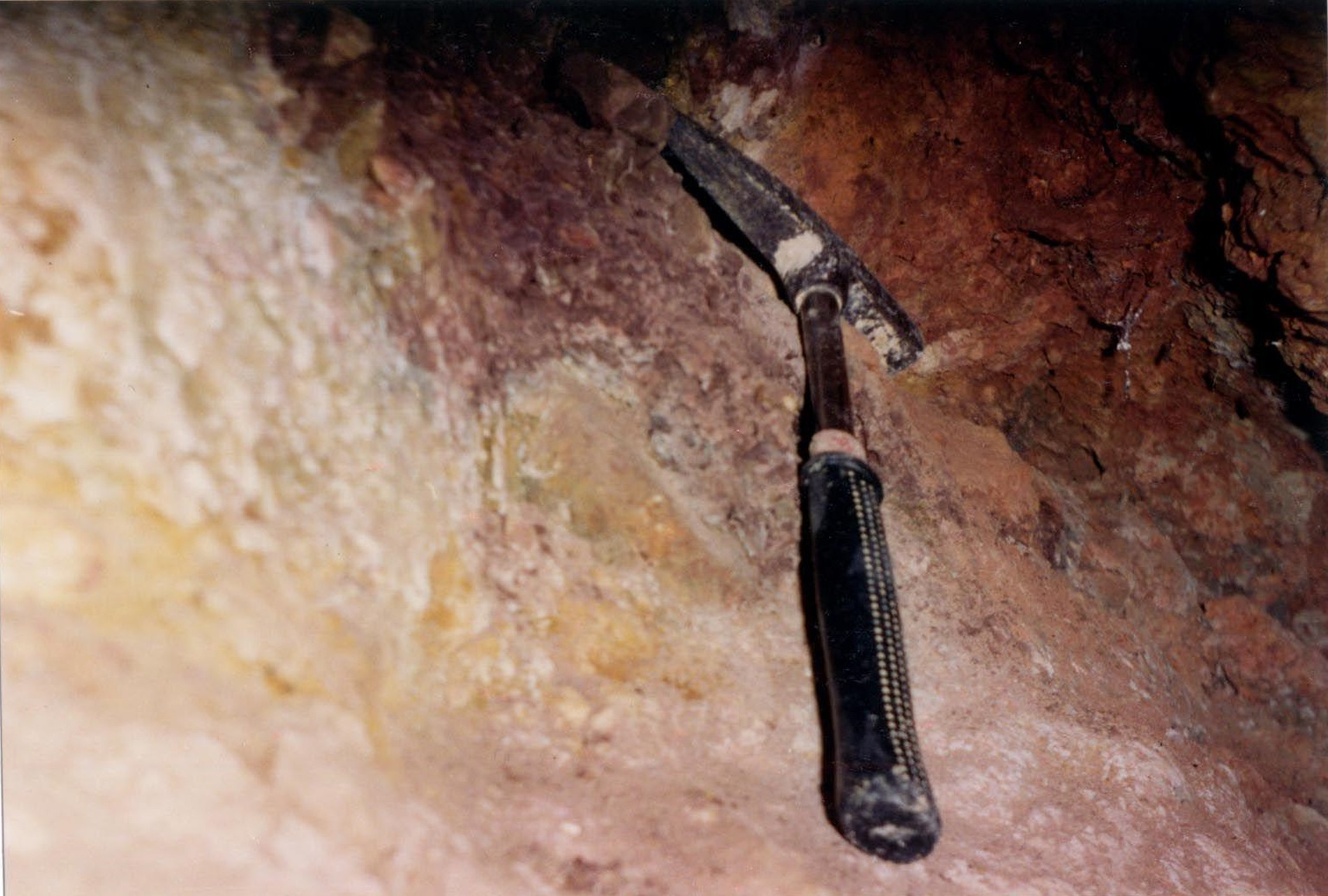 Budaliget Cave.